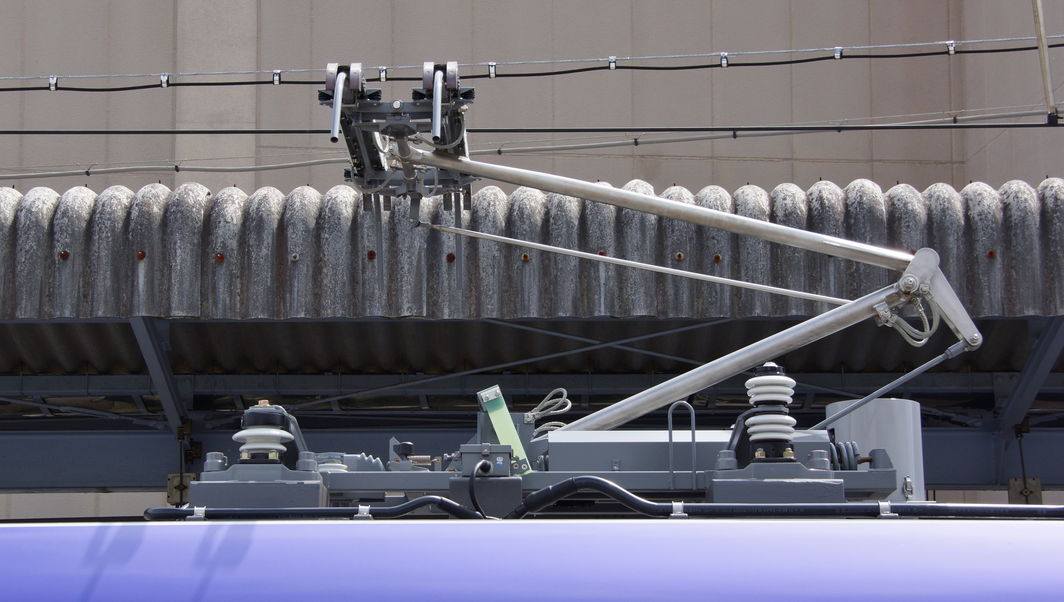 The PS39 type single-arm pantograph on JR East E353 series EMU car MoHa E353-1 (car 10) at Kami-Suwa Station while on a test run